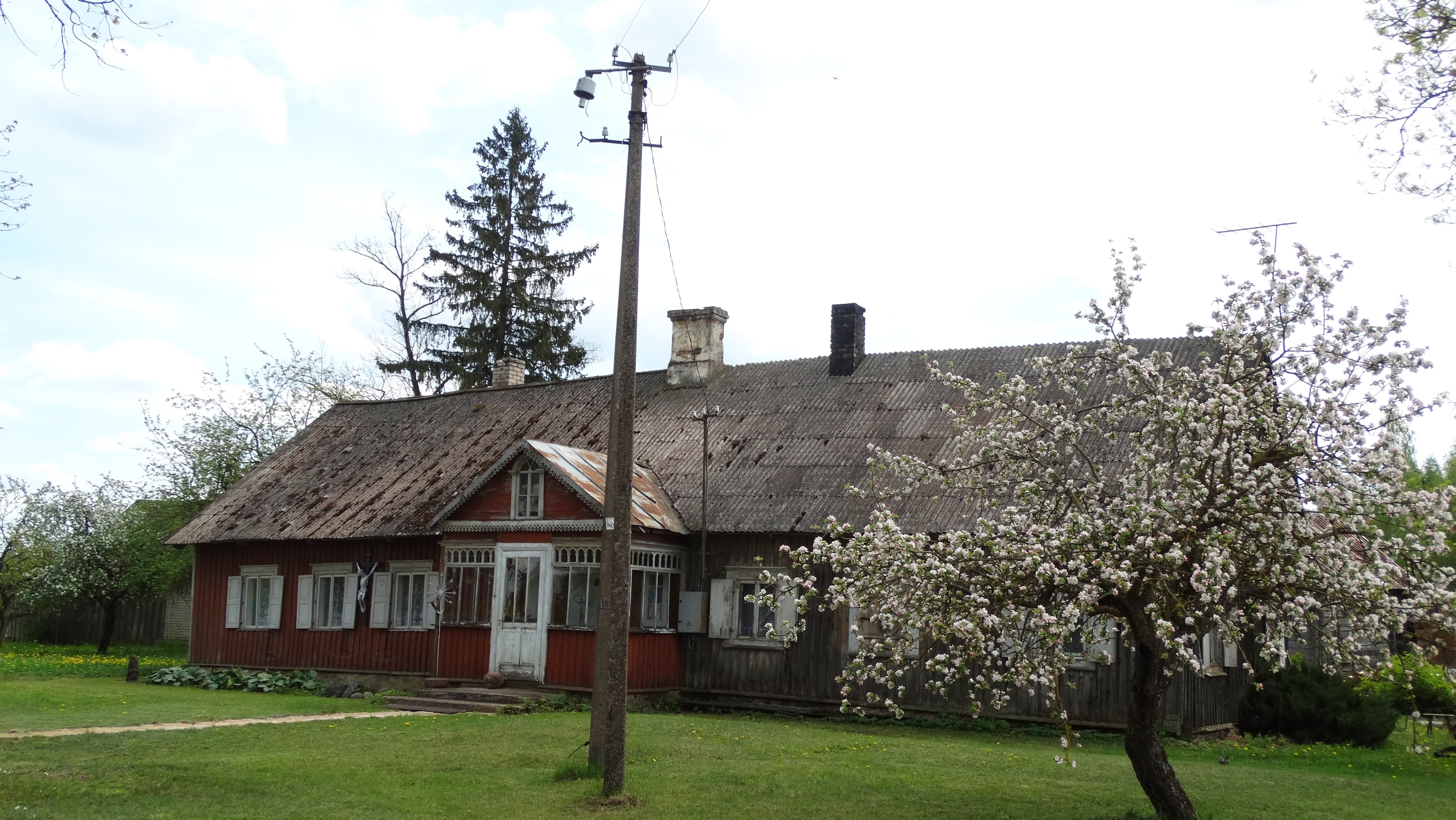 Vadaktai (Sidabravas), Lithuania